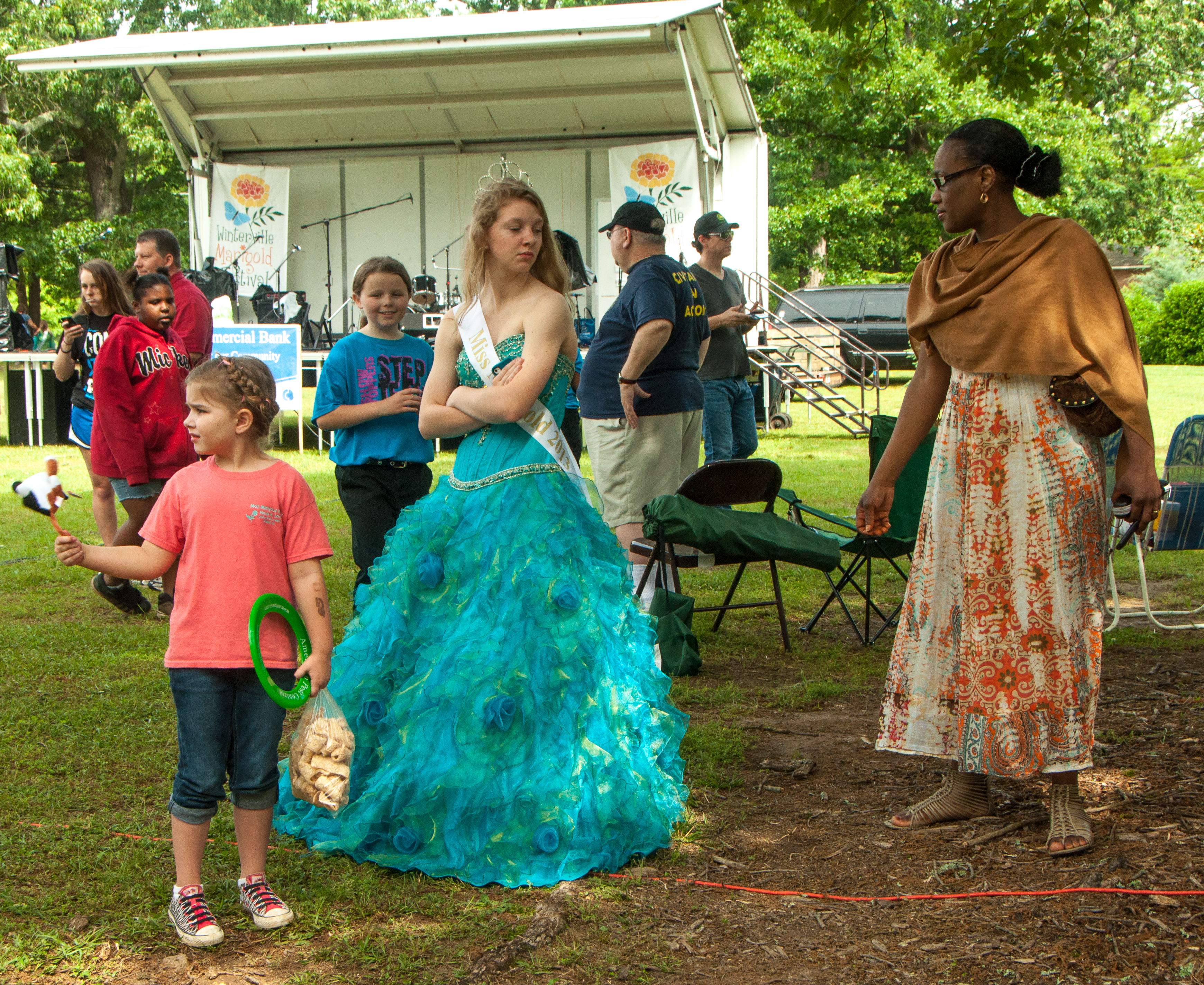 Marigold Festival, Winterville, GA USA